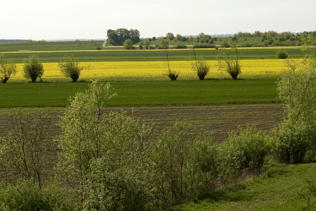 Zulawy near Gdansk - Steblewo